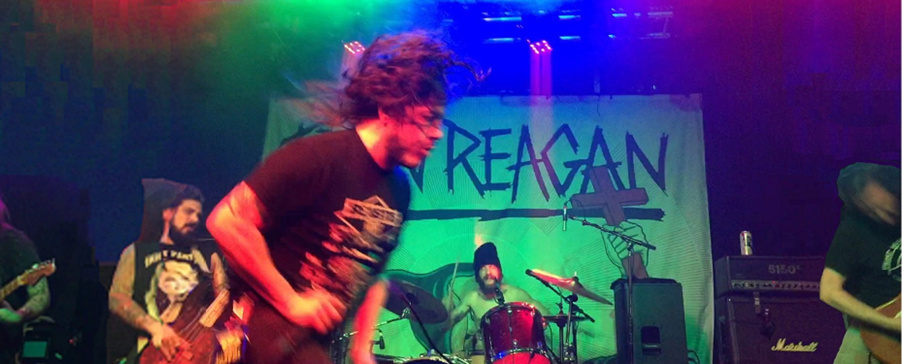 Shot from a video I took during Iron Reagan's performance at the Broadberry, Richmond, VA. Members are from left to right: Phil Hall, Rob Skotis, Tony Foresta, Ryan Parrish, Mark Bronzino